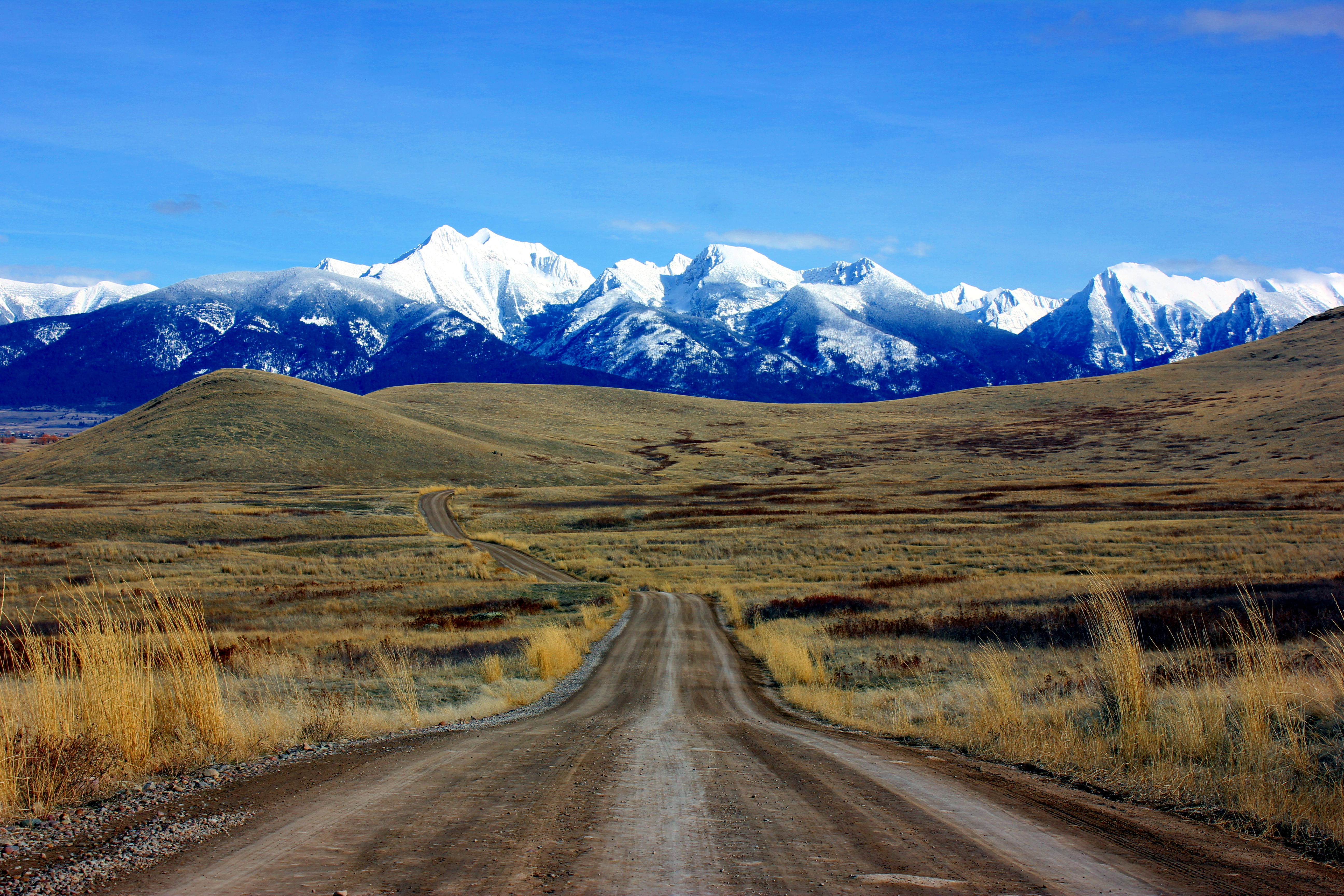 The Mission Mountains seen from the National Bison Range, Montana